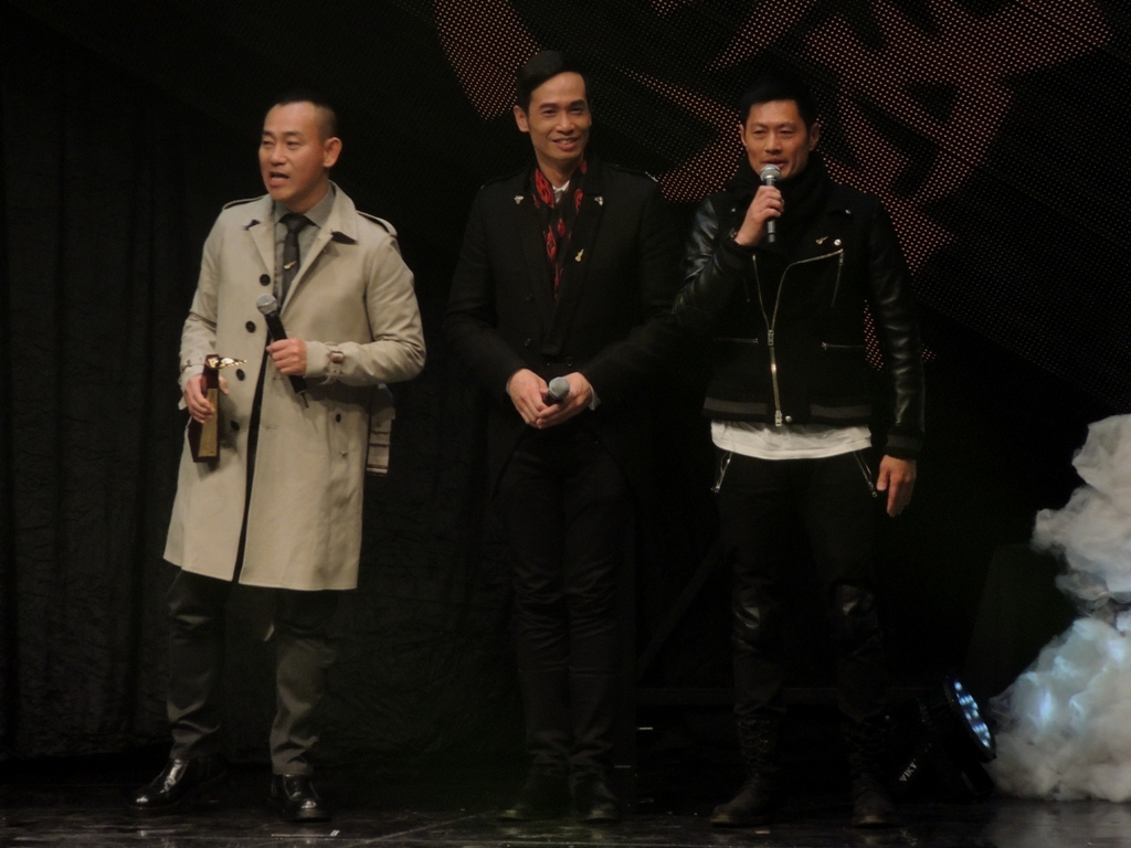 Sober Band @ Ultimate Song Chart Awards 2012